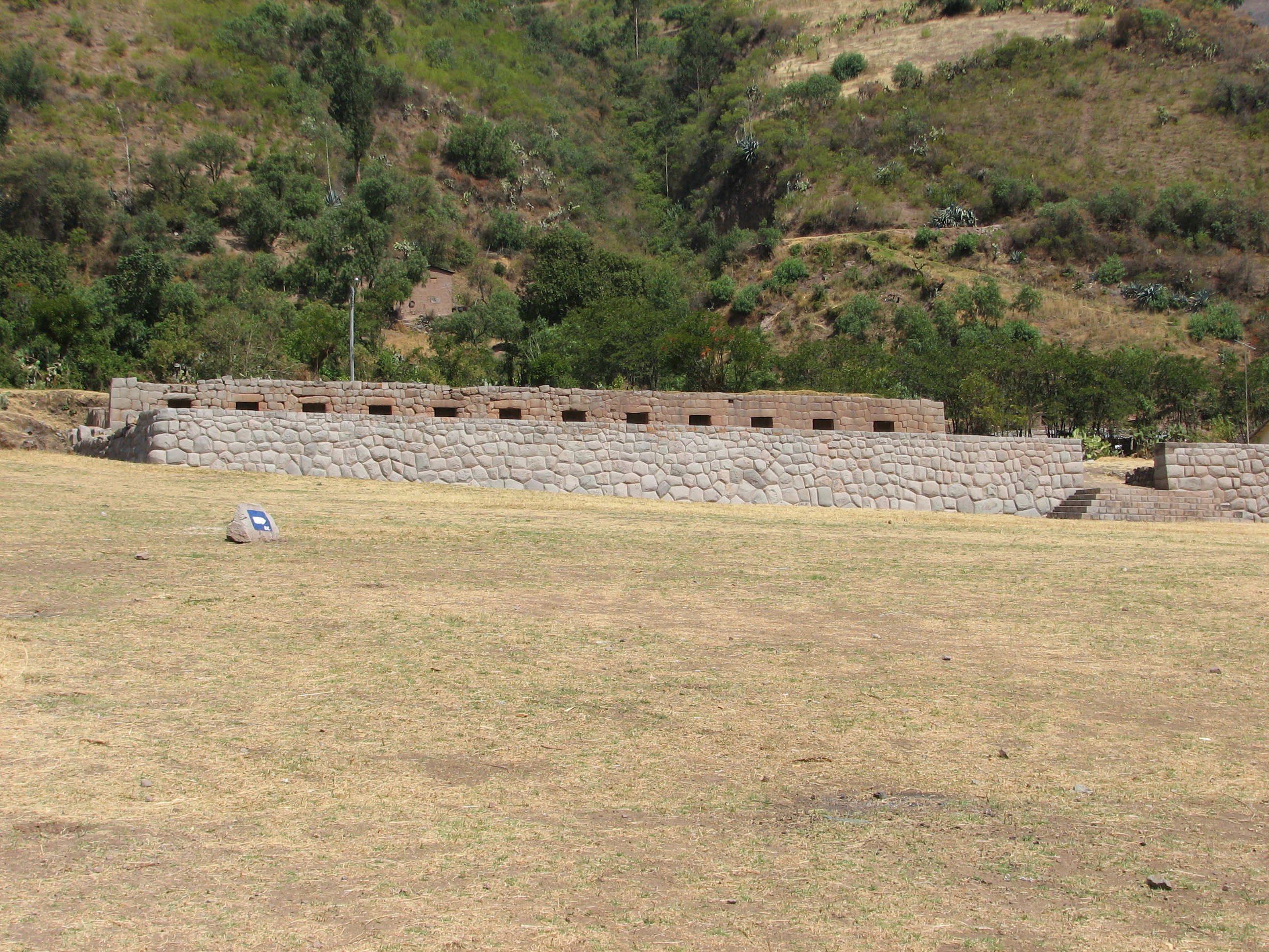 Tarahuasi Archaeological site (overview)